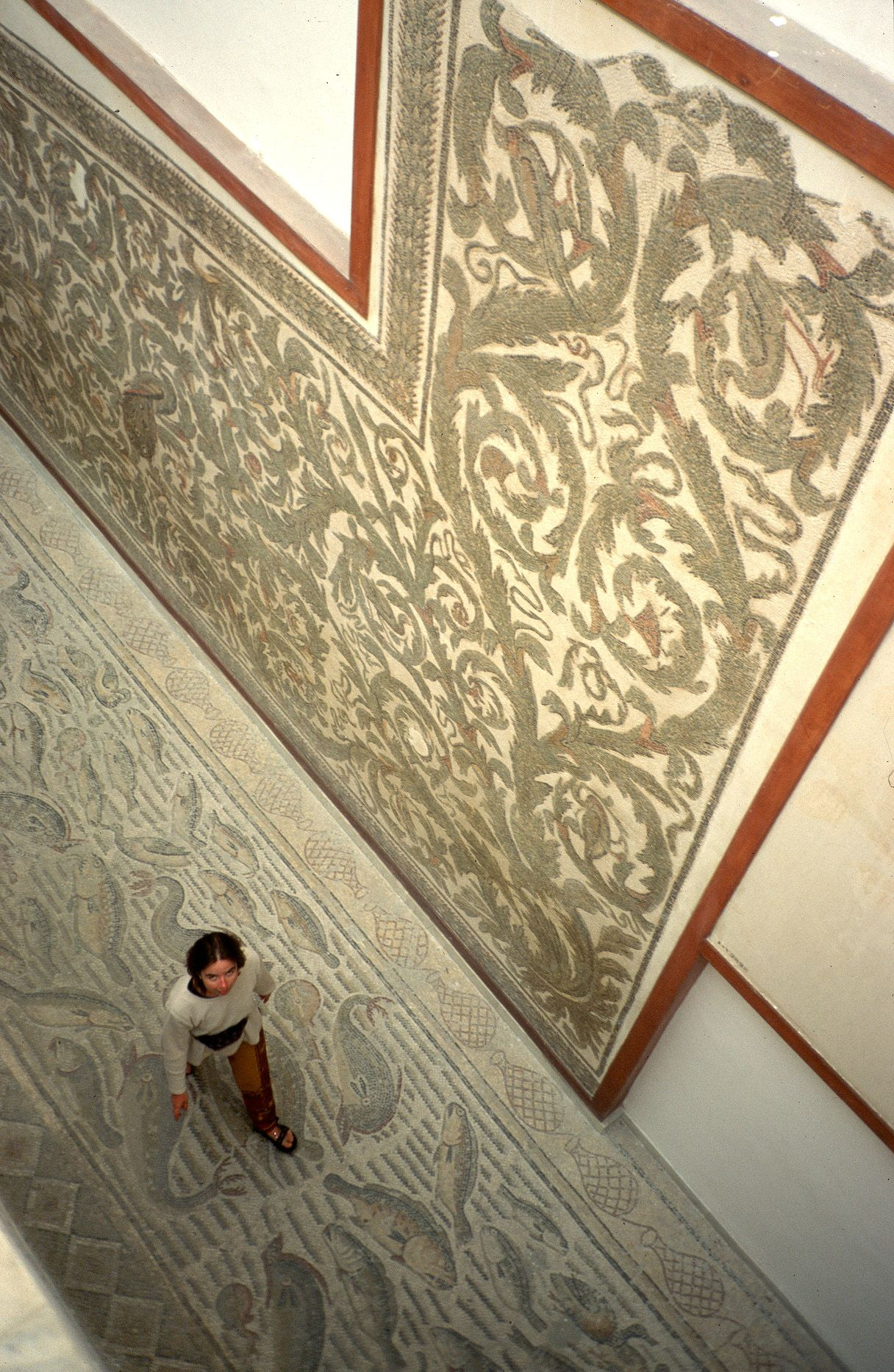 Ancient Roman mosaics in the Bardo National Museum (Tunis).